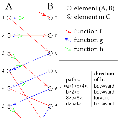 translated to English from File:Cantor-Bernstein orig.png, drawn and placed under GFDL by Benutzer:SirJective